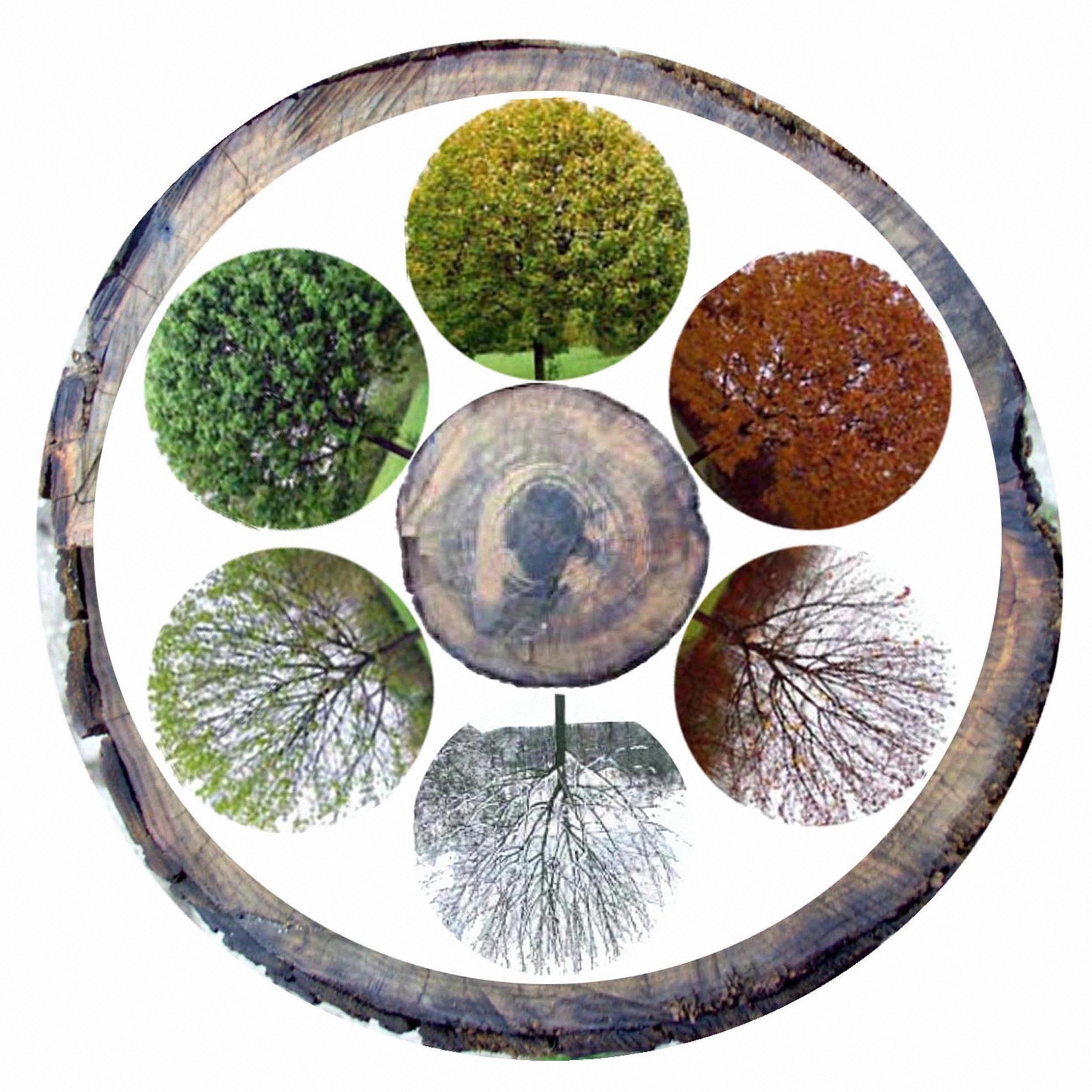 Seasons /Annual rings The six ecological seasons. From bottom, clockwise: prevernal, vernal, estival, serotinal, autumnal, hibernal